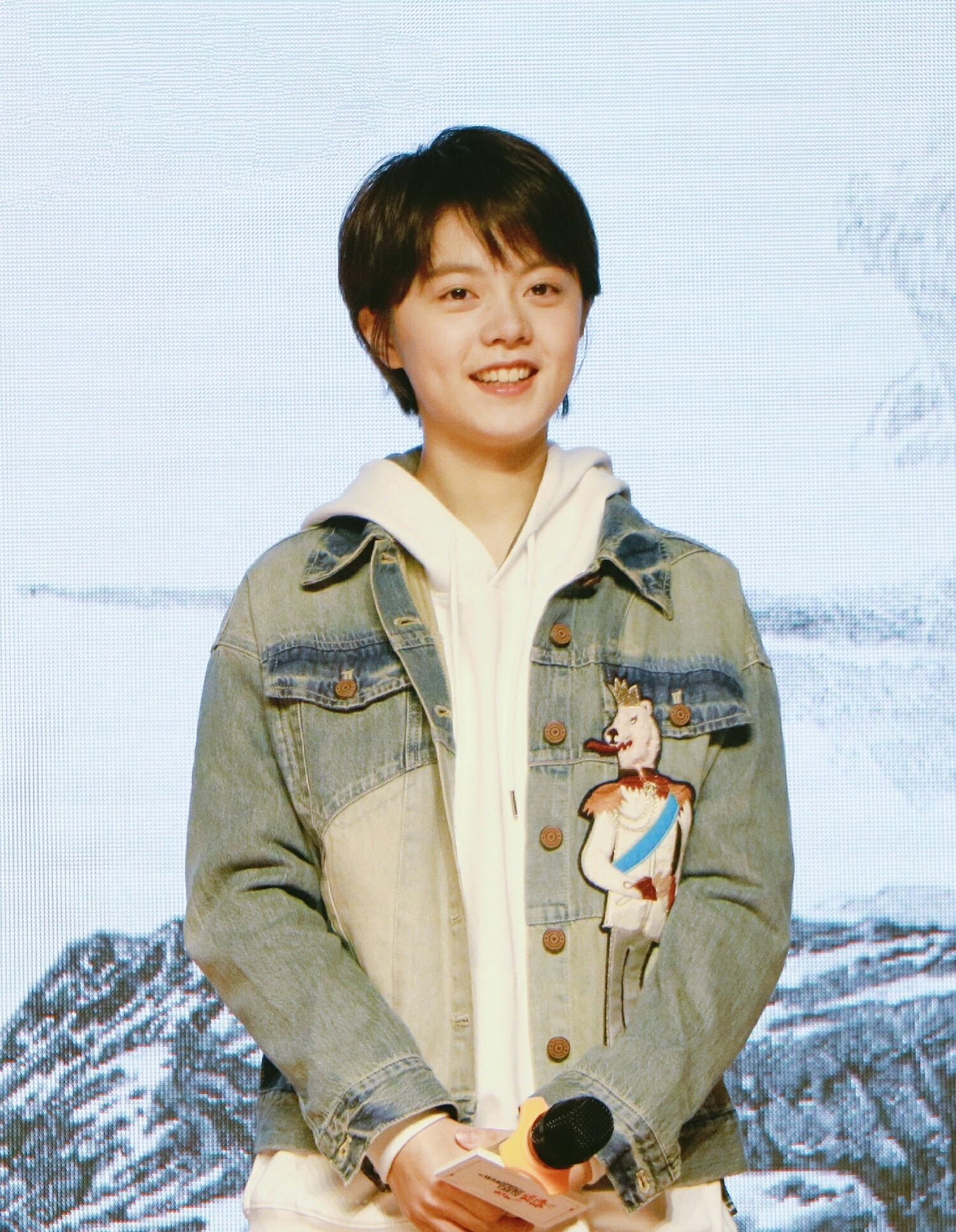 Zhao Jinmai in Xi'an, China, December, 2018